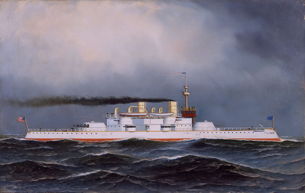 USS Massachusetts (BB-2), oil on canvas painting by Antonio Jacobsen, original 14 in × 20 in (35.5 cm × 50.8 cm)